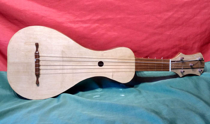 Viola de cocho built by Jo Dusepo.